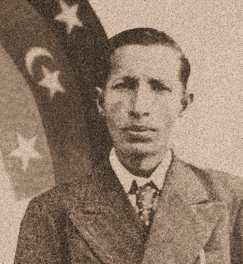 artwork based on patches of old pictures